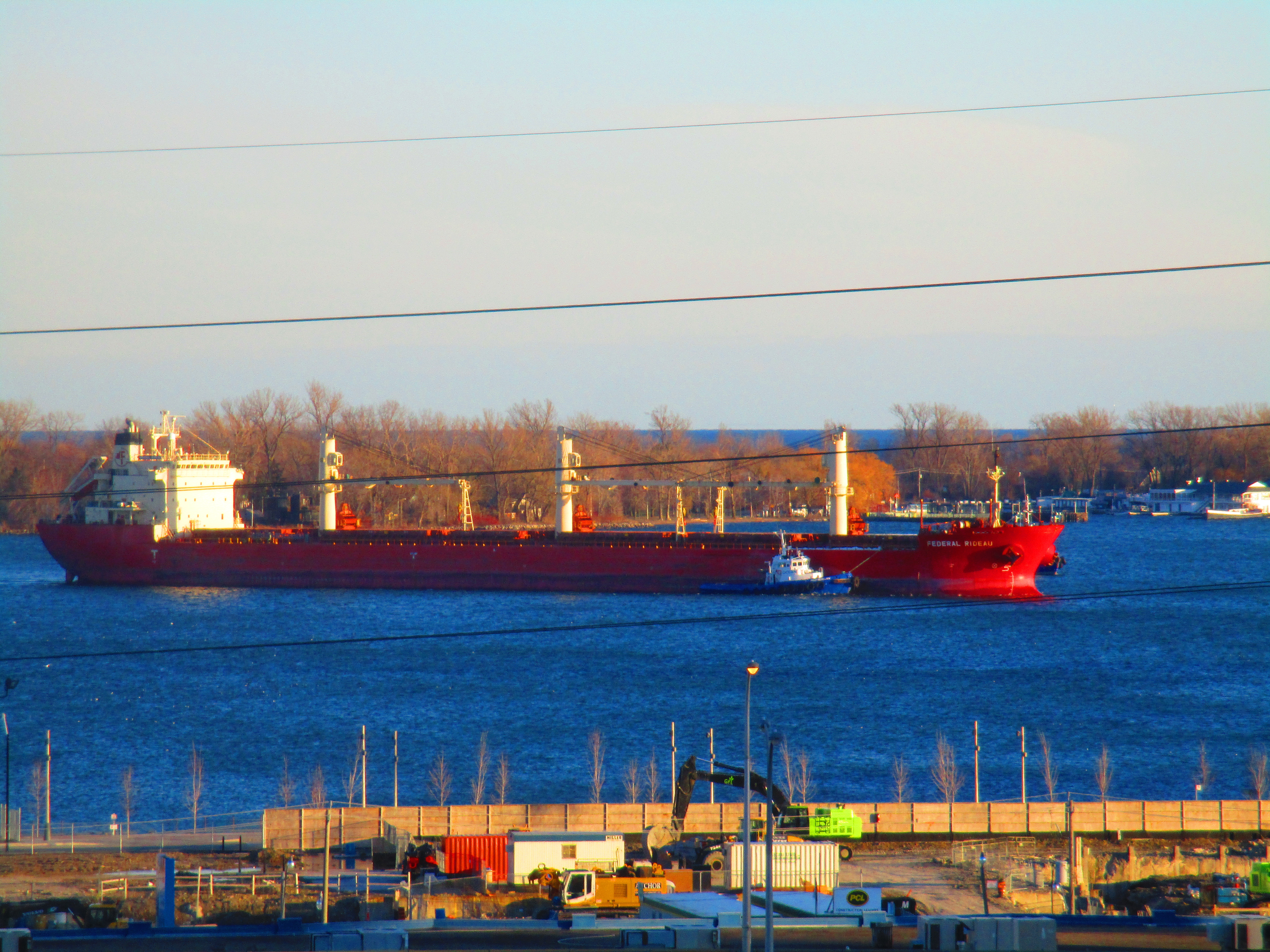 Freighter approaches Redpath, near dusk, 2016 04 09 (4)